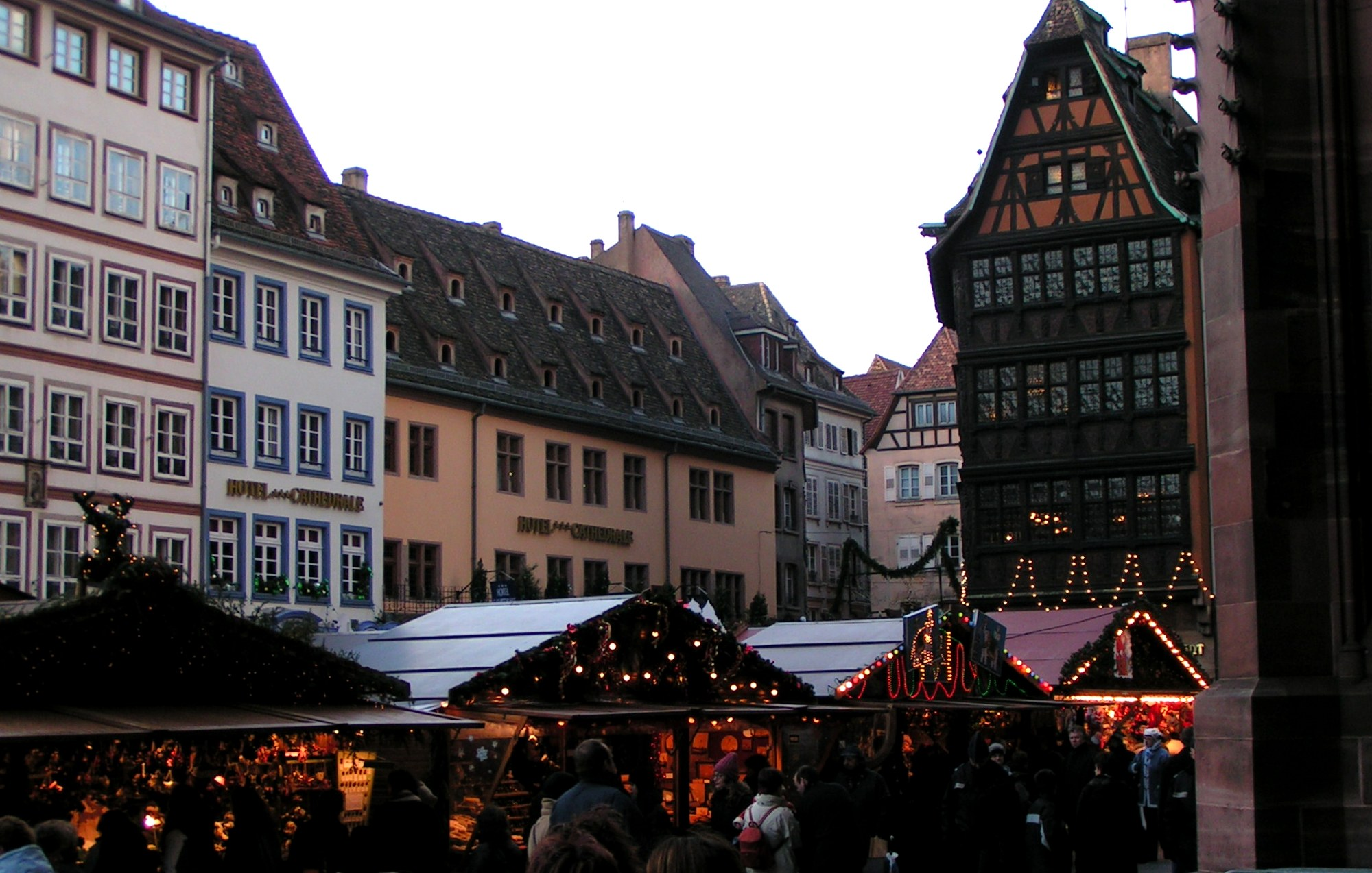 Christmas market in front of Strasbourg Cathedral